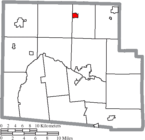 Map of the municipal and township boundaries of Hardin County, Ohio, United States, as of the 2000 census, with the location of the village of Dunkirk highlighted. Township borders are shown only in unincorporated areas in order to differentiate incorporated and unincorporated areas more clearly.